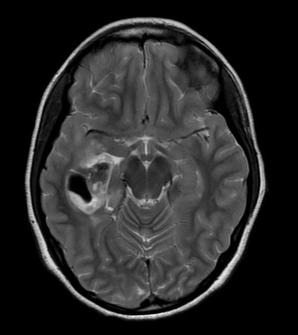 Hemorrhagic pleomorphic xanthoastrocytoma (PXA), MRI